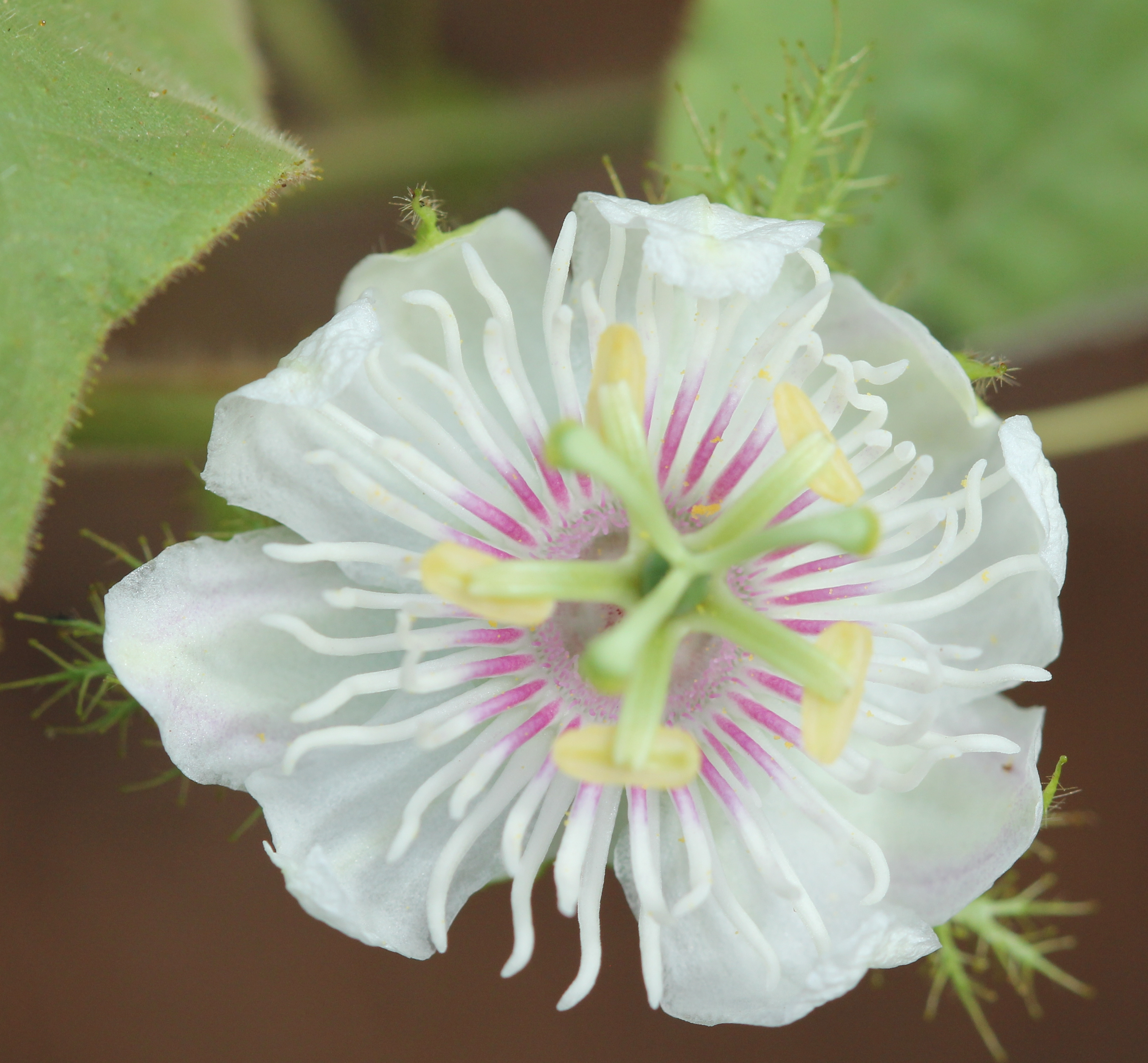 It is also known as passion flower.It is the food plant of tawny coster butterfly